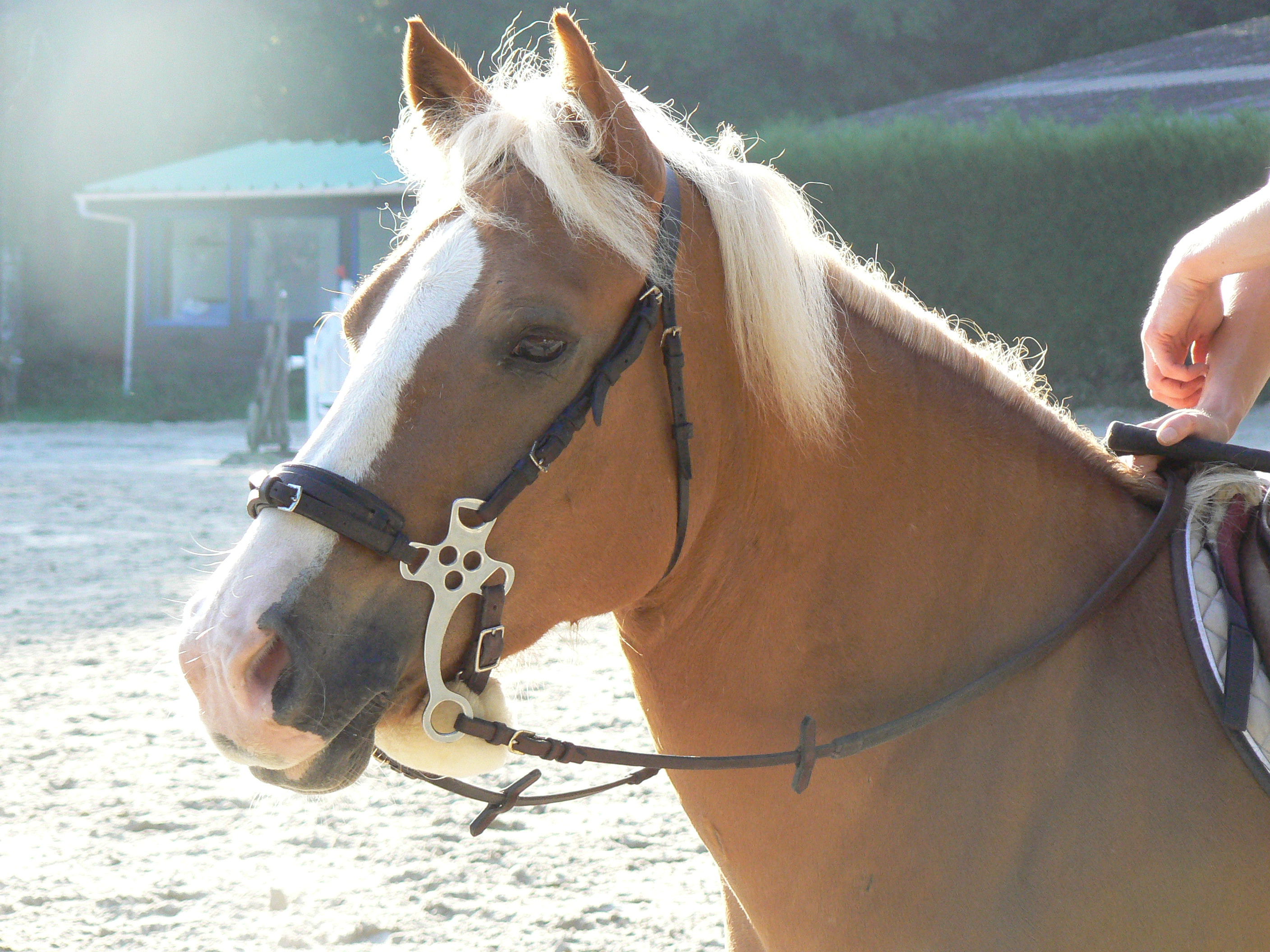 A Haflinger pony with hackamore